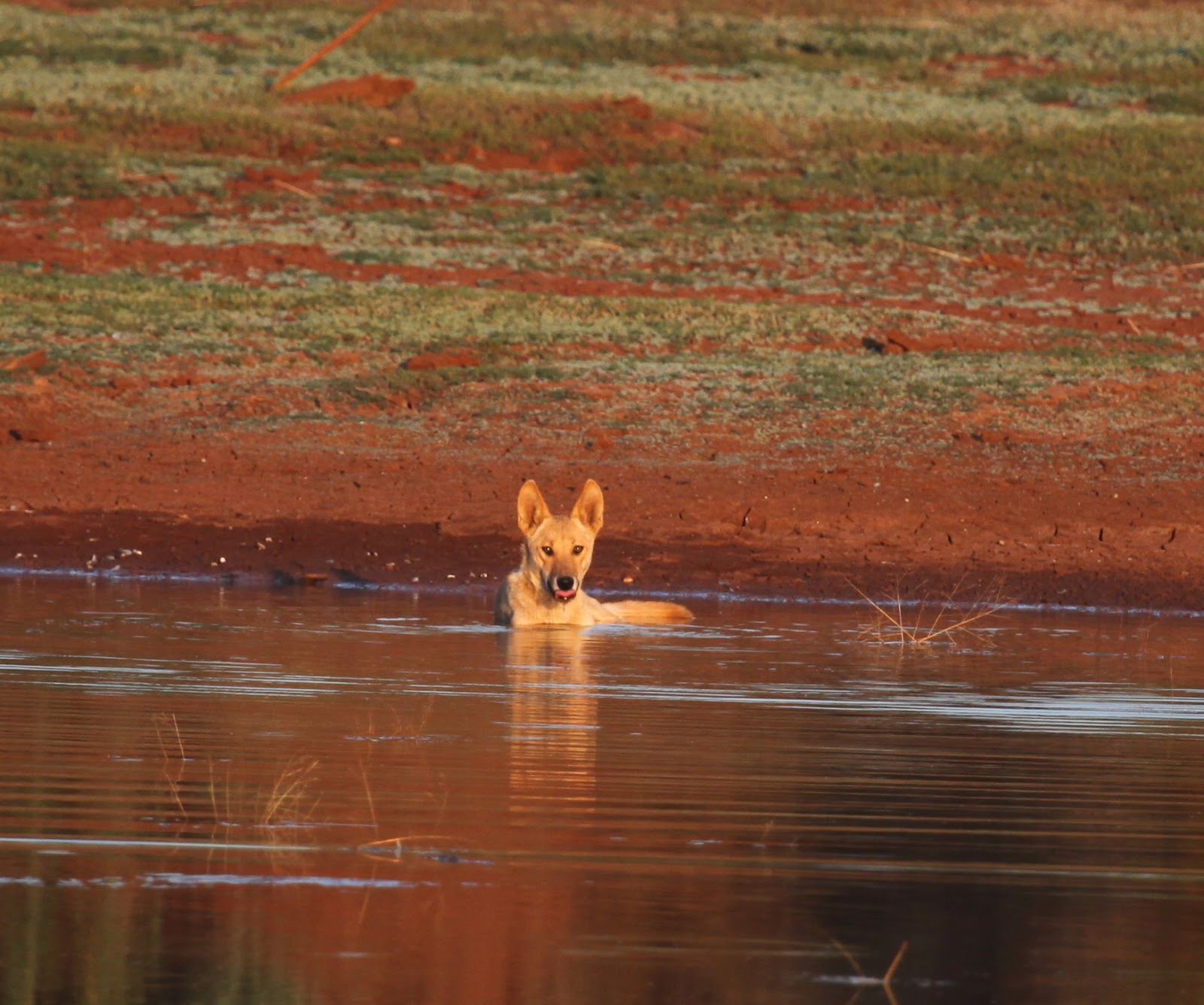 Australian Dingo (Canis lupus dingo), Northern Territory, Australia